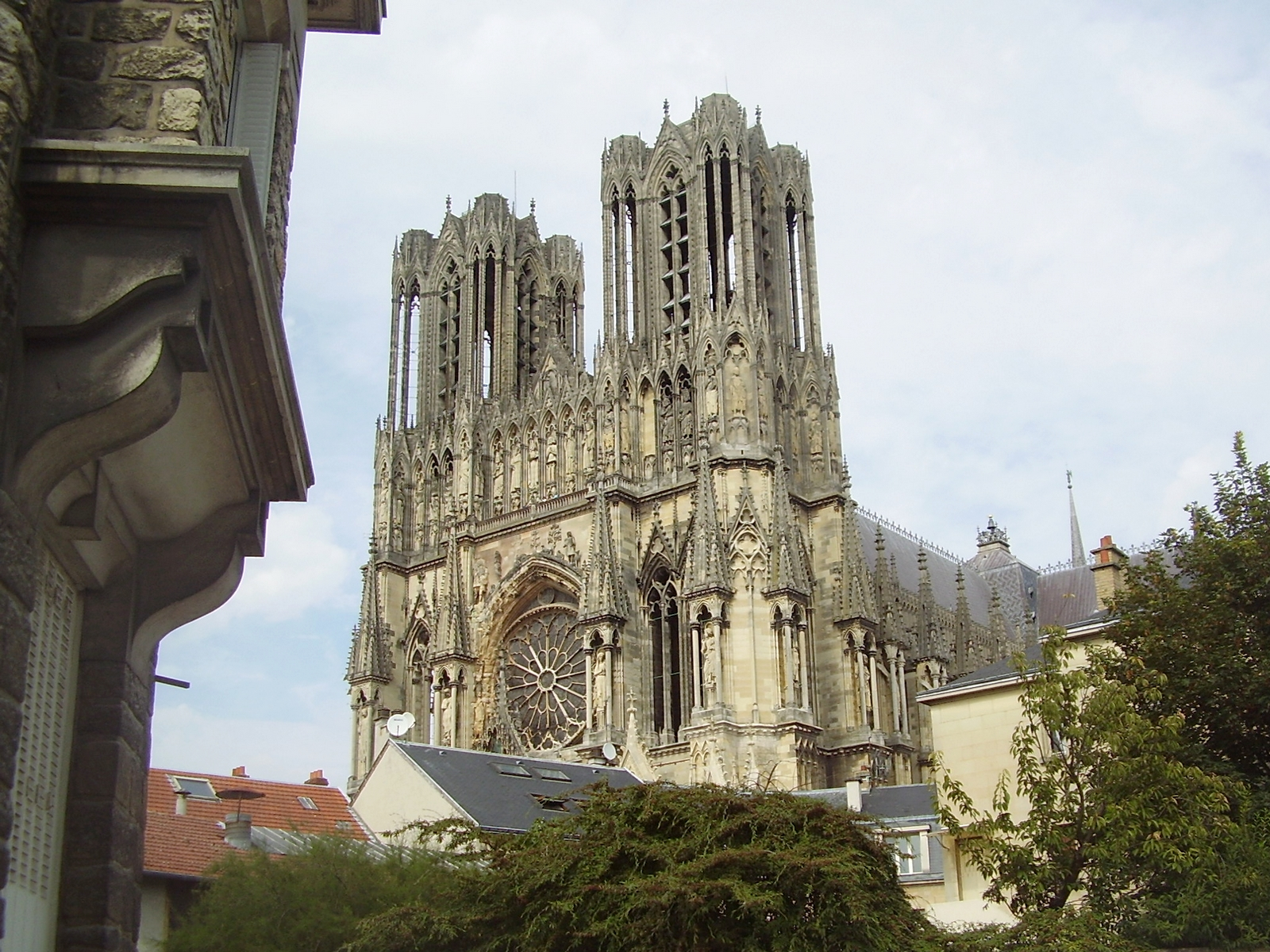 Notre-Dame de Reims Cathedral seen from Tournelles St.